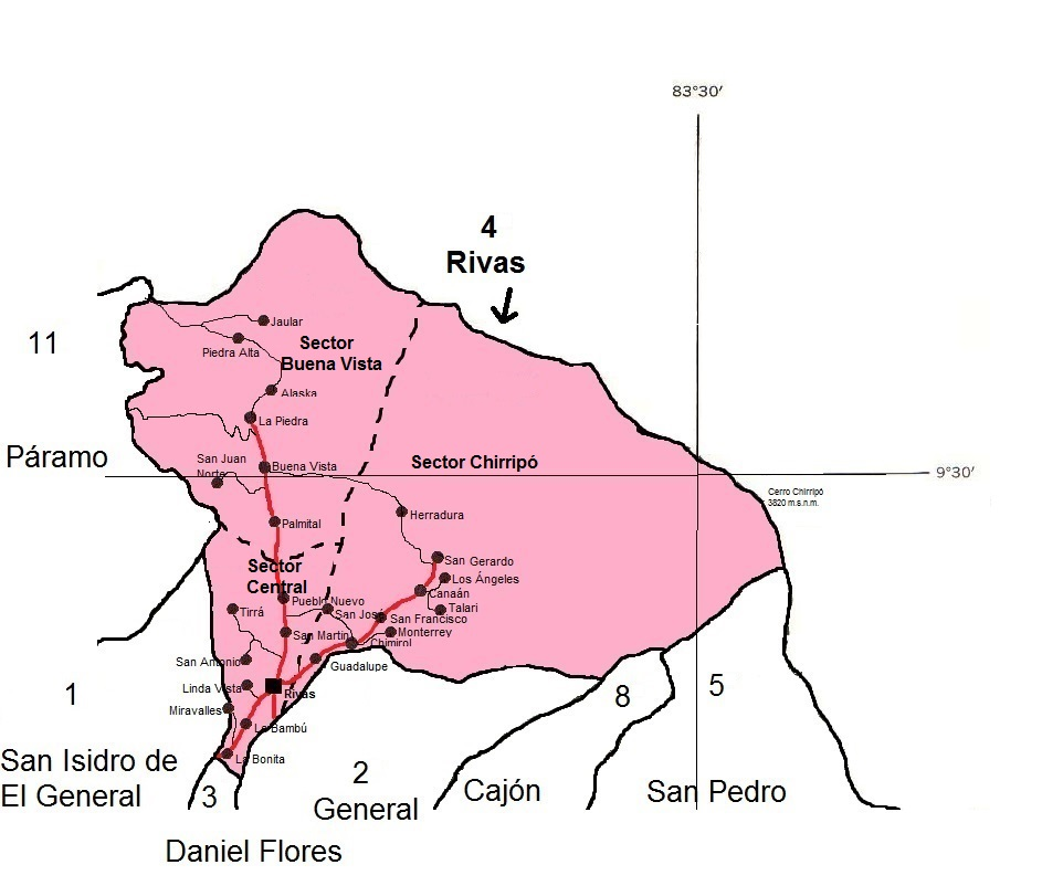 Rivas´ map